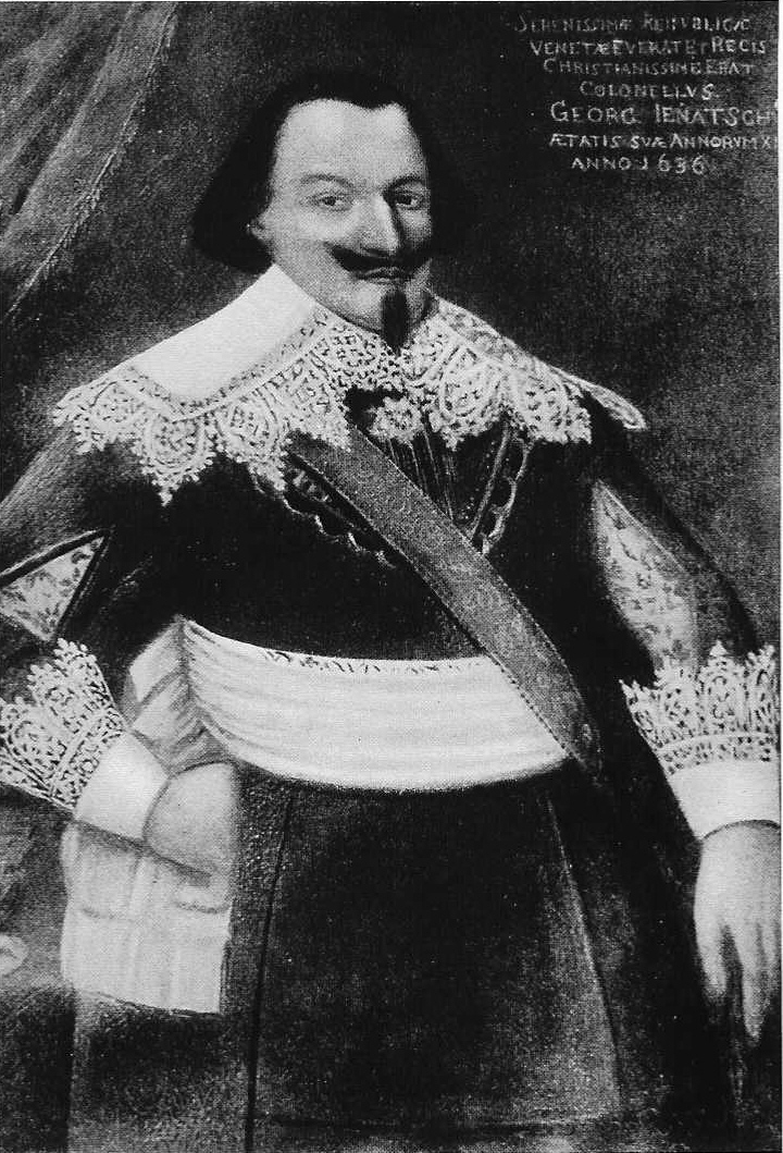 Jörg Jenatsch